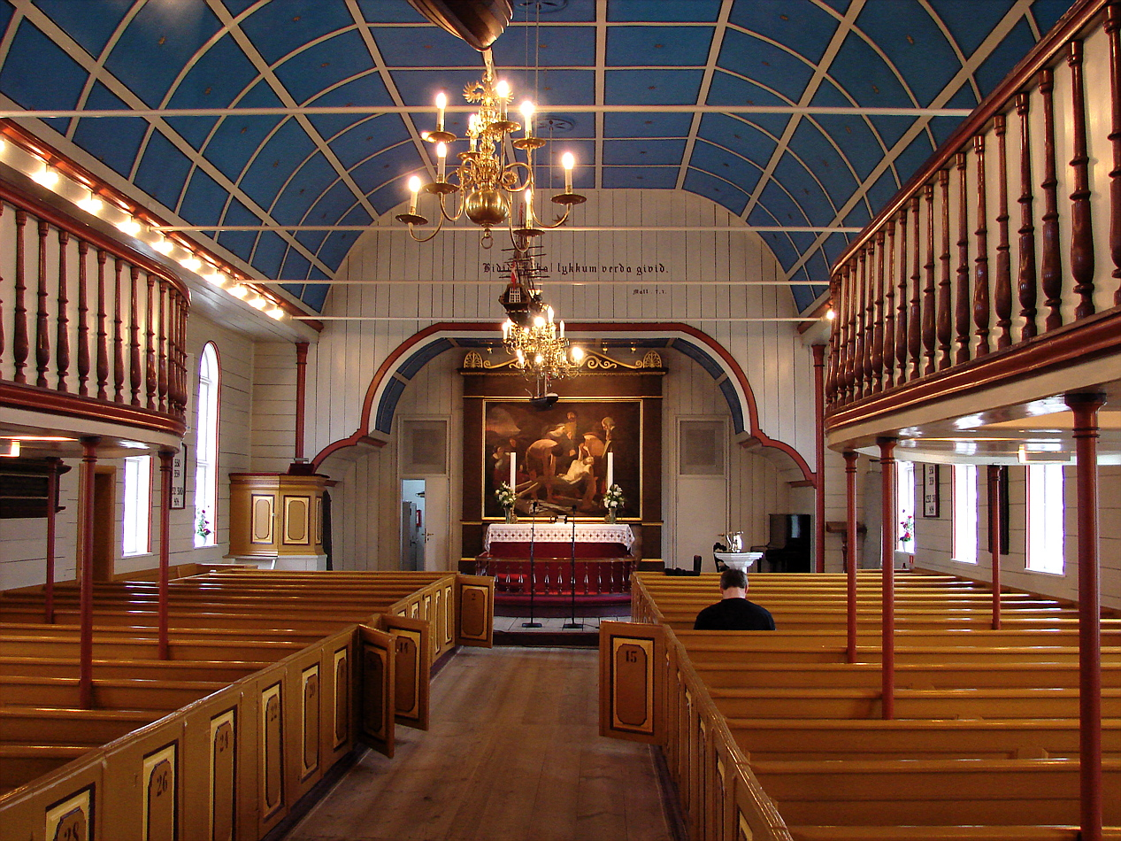 Thorshavn katedral, Thorshavn